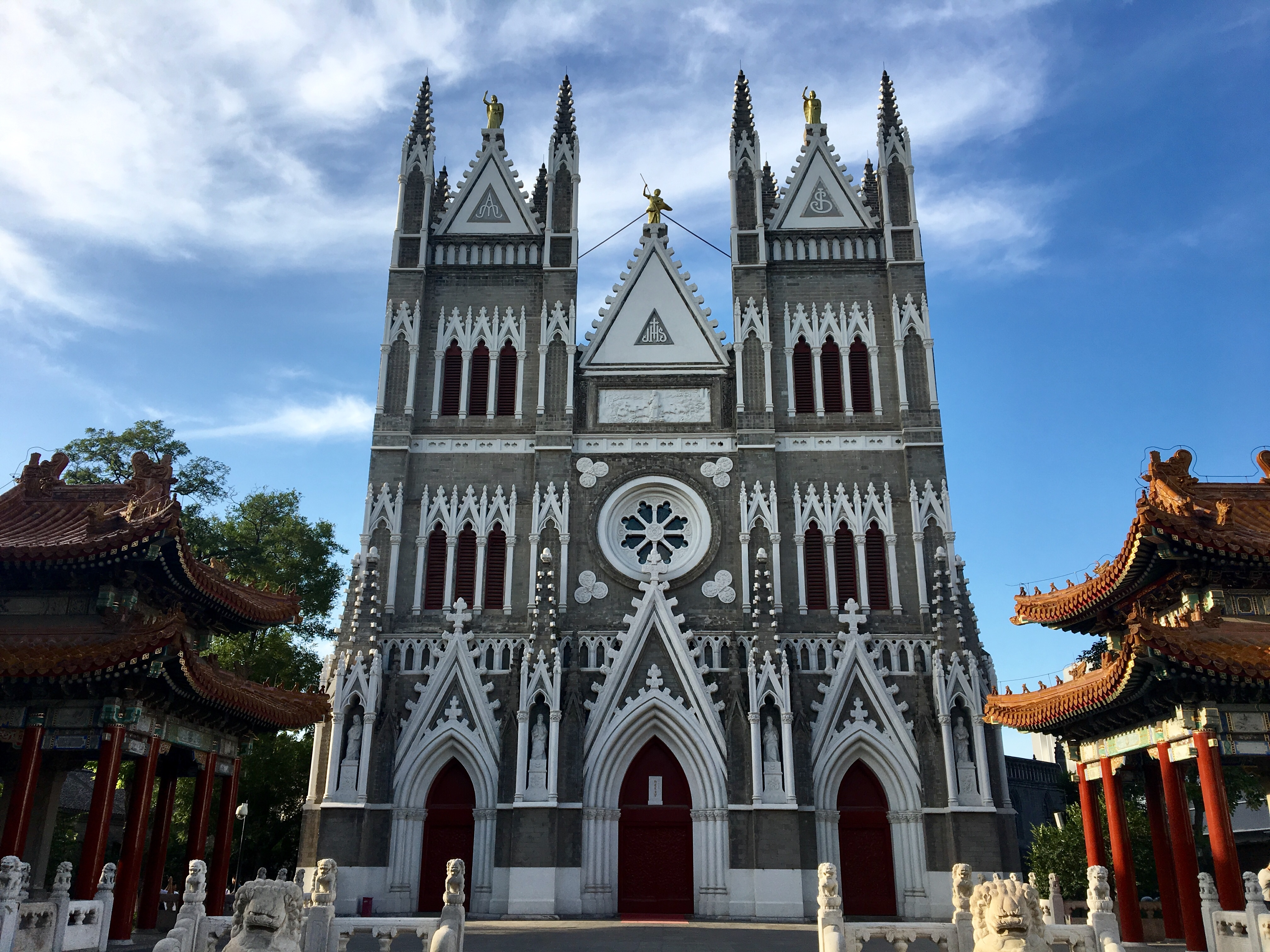 Church of the Saviour, Beijing 西什库天主教堂，北京